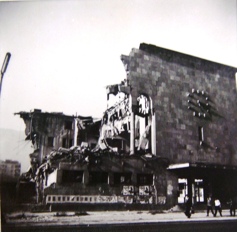 1963 Skopje earthquake: Clearing the railway station. It is decided to leave the area with the clock that shows the time of the earthquake This media file is produced by Wikipedian in Residence in Category:Wikipedian in Residence at DARM in 2016.